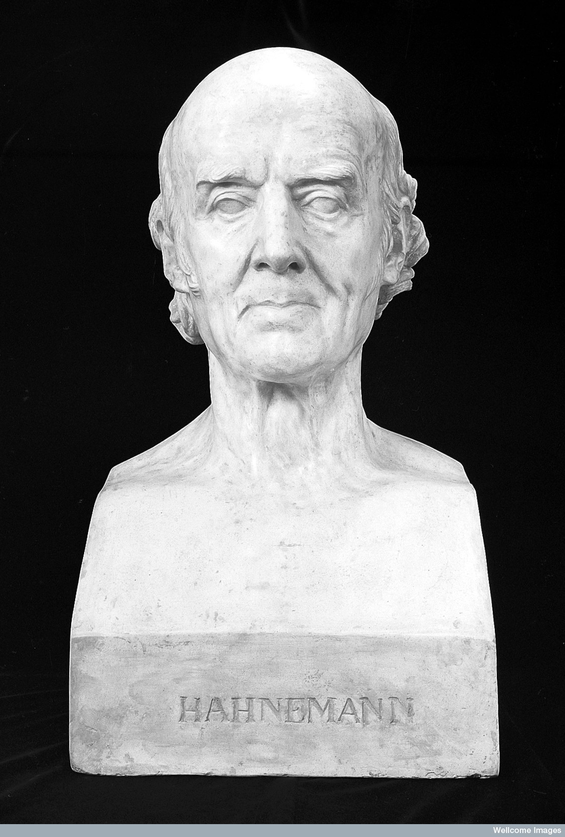 Bust of Samuel Hahnemann by french sculptor David d'Angers (1837).